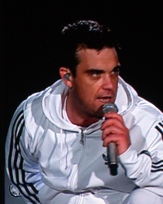 Robbie Williams - WIEN 2006